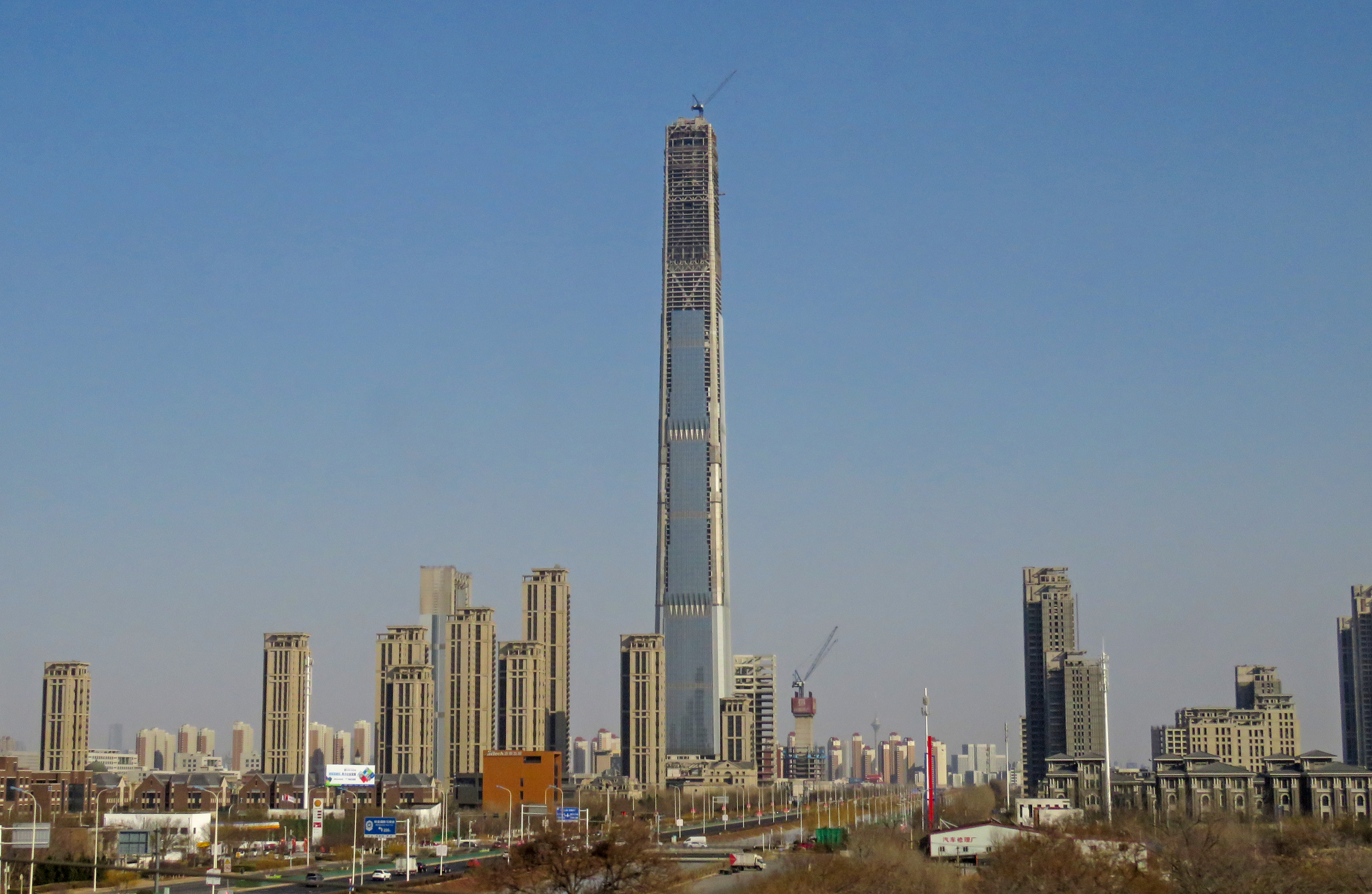 Taken from G3. Changes are far too subtle in one month...